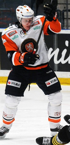 Cropped photo of Niclas Lundgren during a SHL game against AIK.